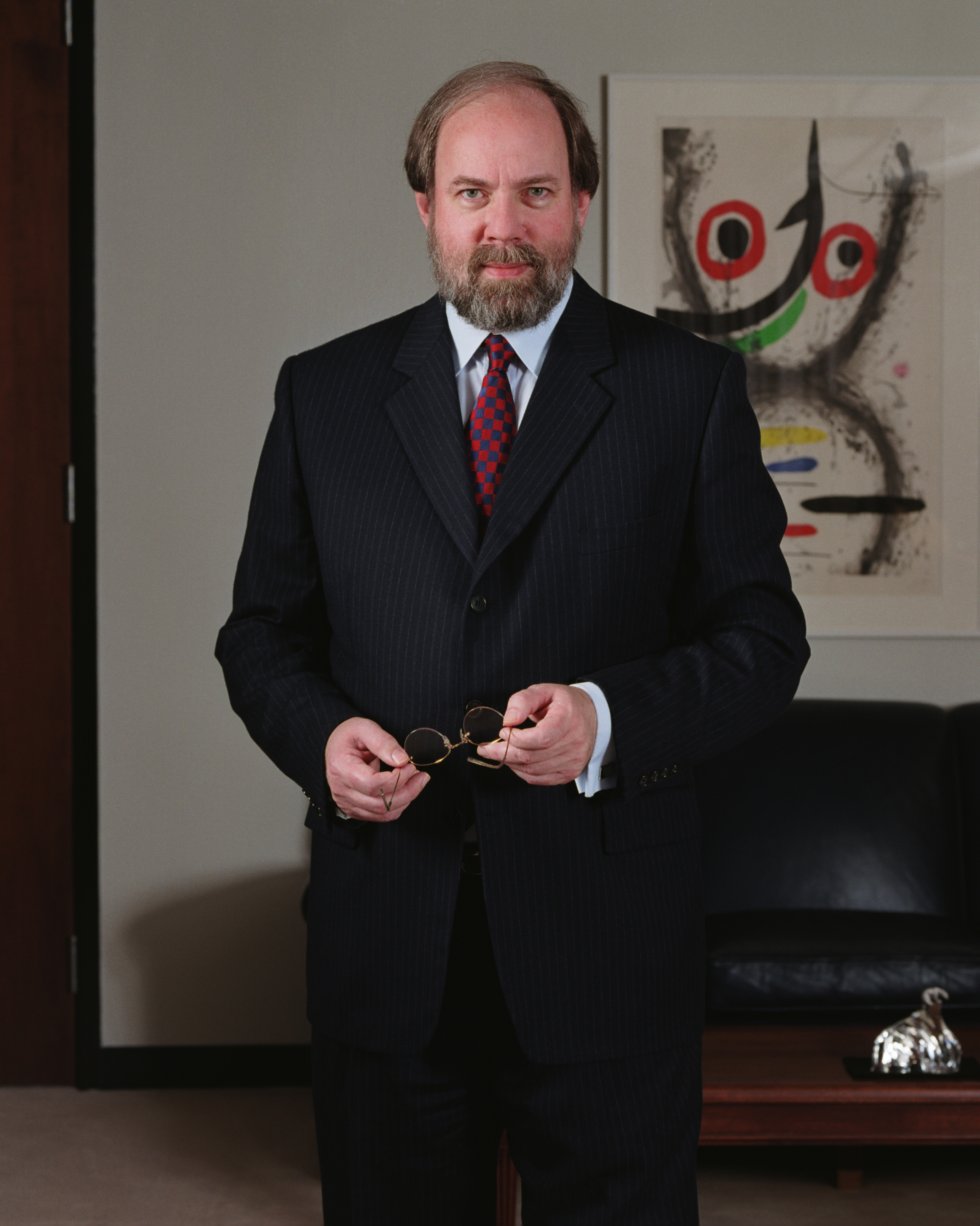 A portrait of Frank Easterbrook